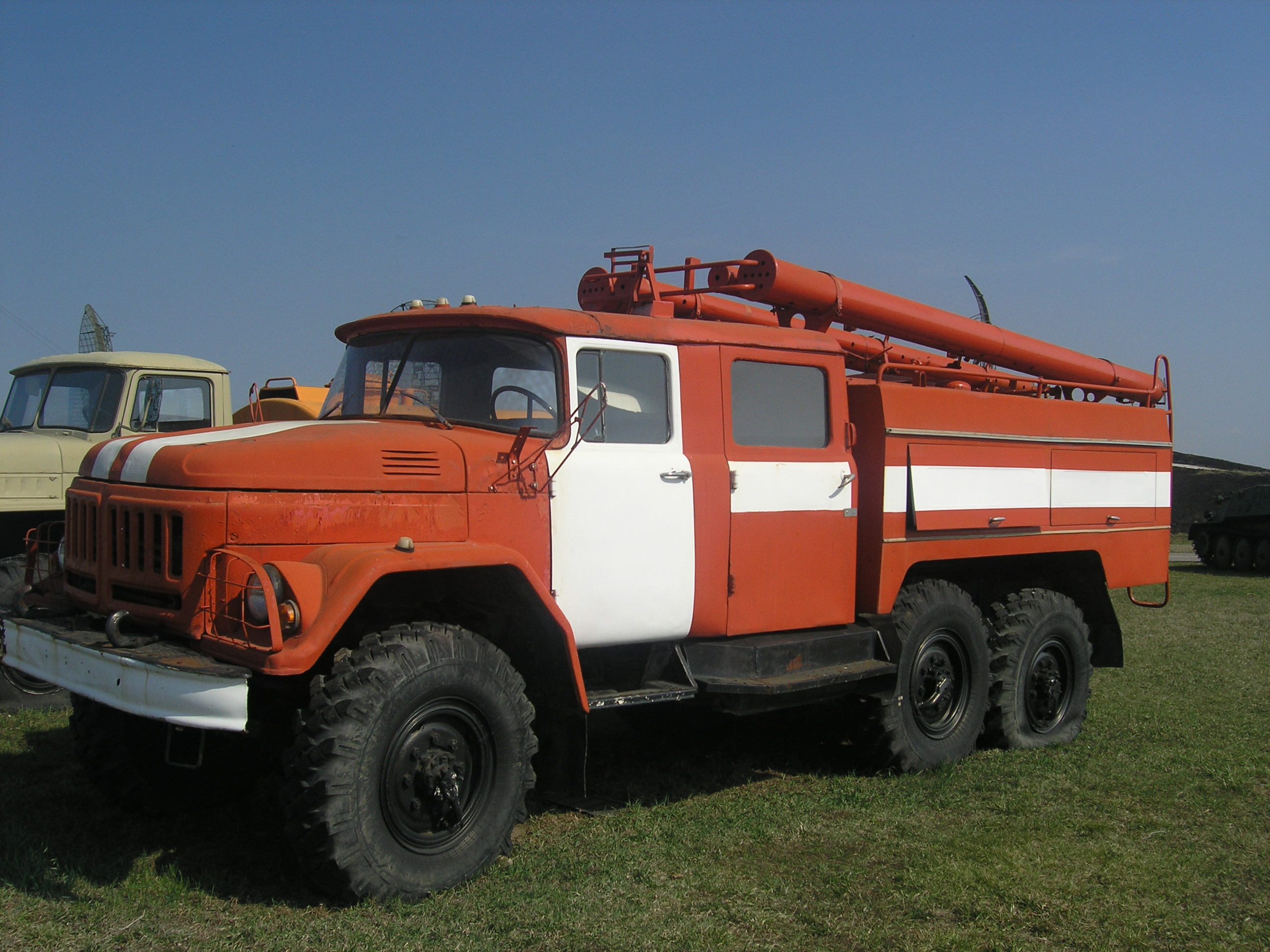 ZiL-131, technical museum, Togliatti, Russia